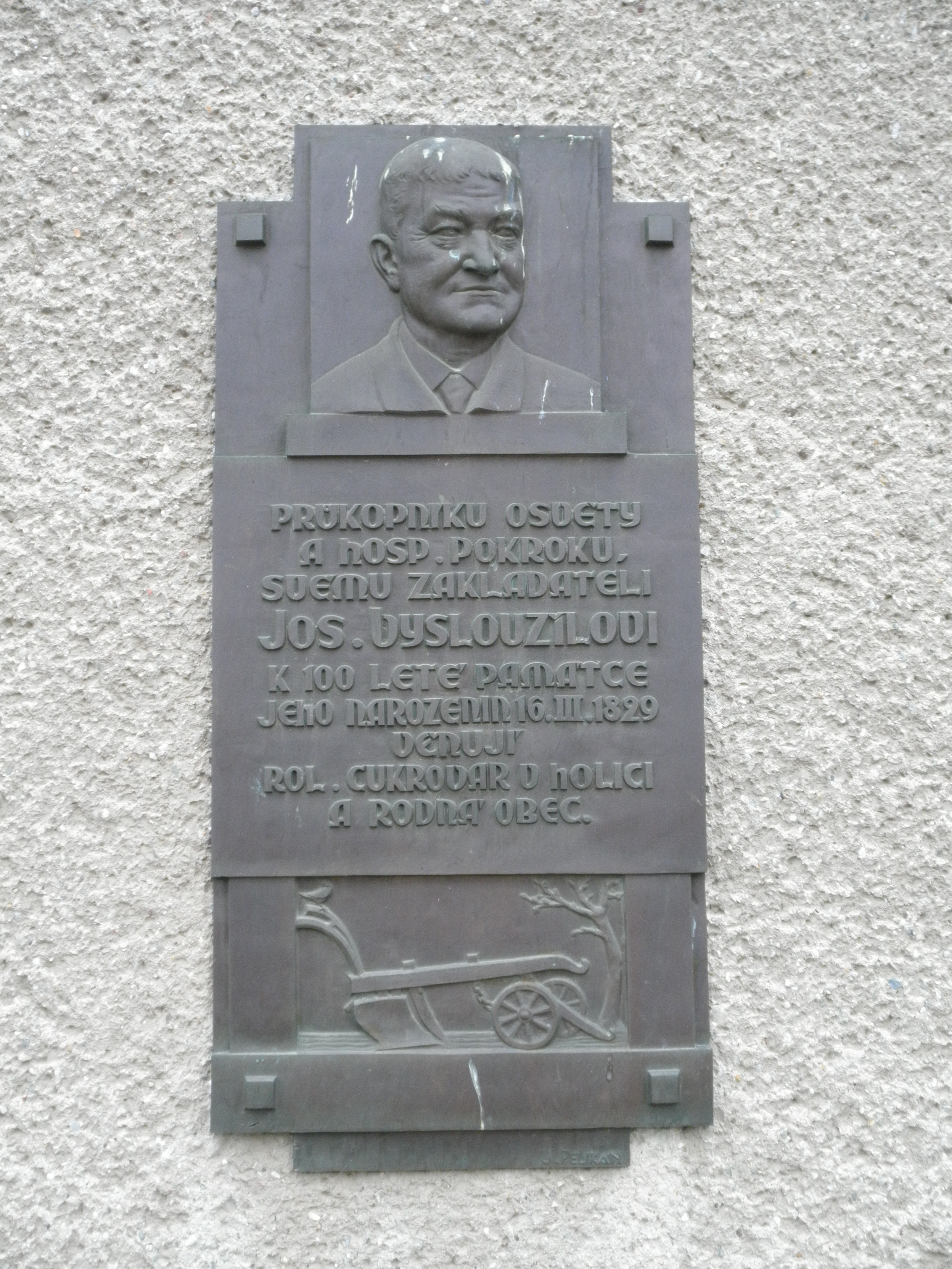 Photo of plaque to Josef Vysloužil in Příkazy 19 was made by Julius Pelikán in 1929.